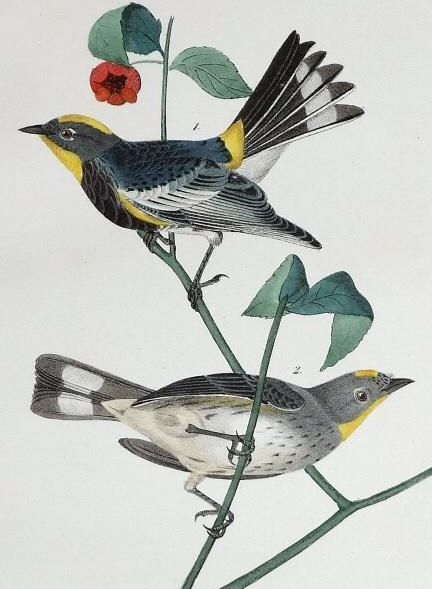 Drawn from nature by the autor between 1821 and 1833 and engraved in Edinburg and London by W.H. Lizars & Robert Havell between 1828 and 1836.